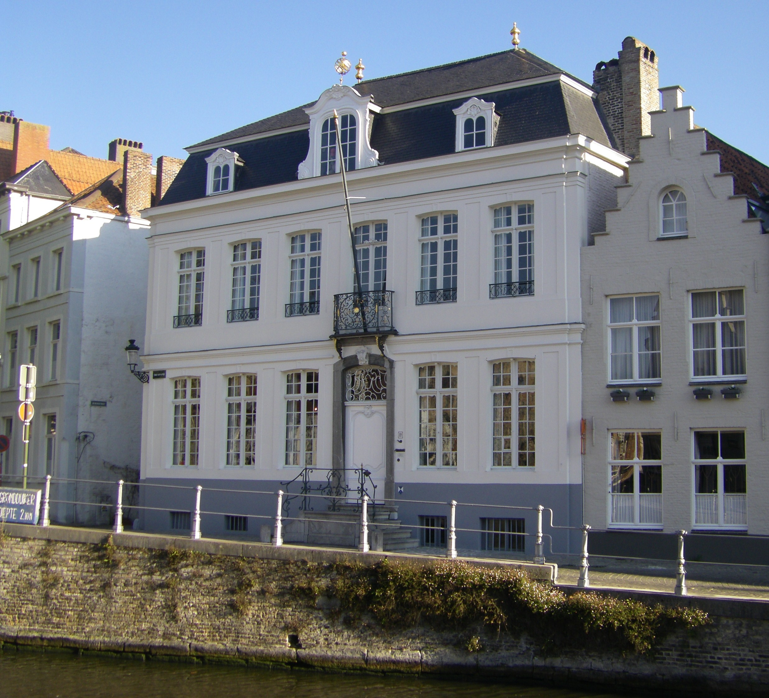 This house was a backdrop of the movie "The Nun's Story" (1959)